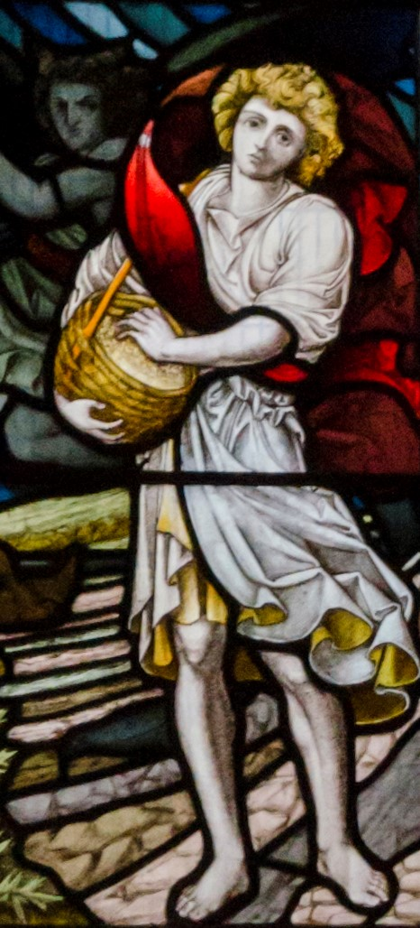 Detail of the Sower and Reaper window in Sts Peter and Paul Church, Pickering, North Yorkshire. It was produced in 1878 by Shrigley and Hunt from a design by E. H. Jewitt.